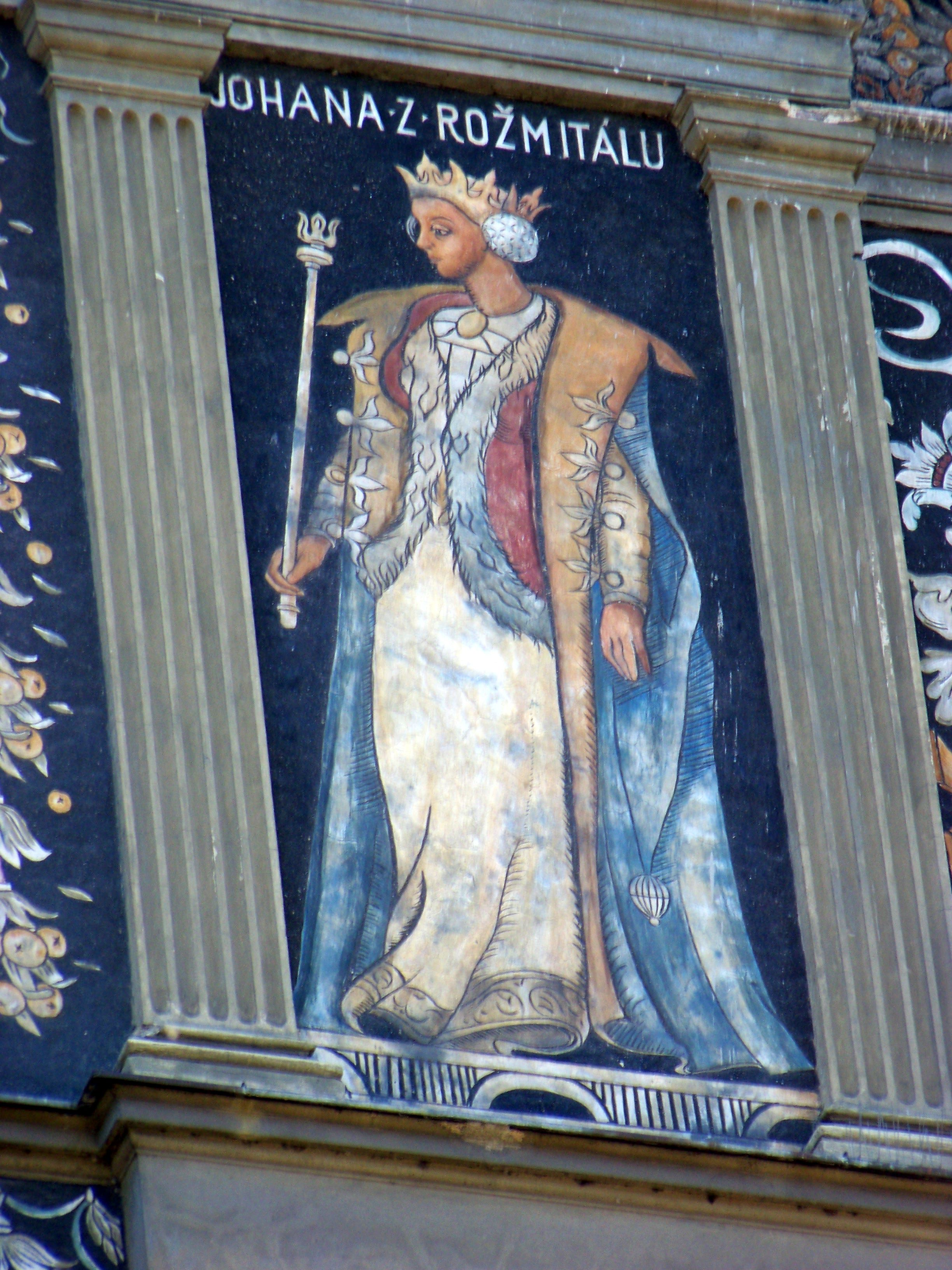 Prague-Smíchov, the Czech Republic. Janáčkovo nábřeží 729/31, a fresco of Johanna of Rožmitál.